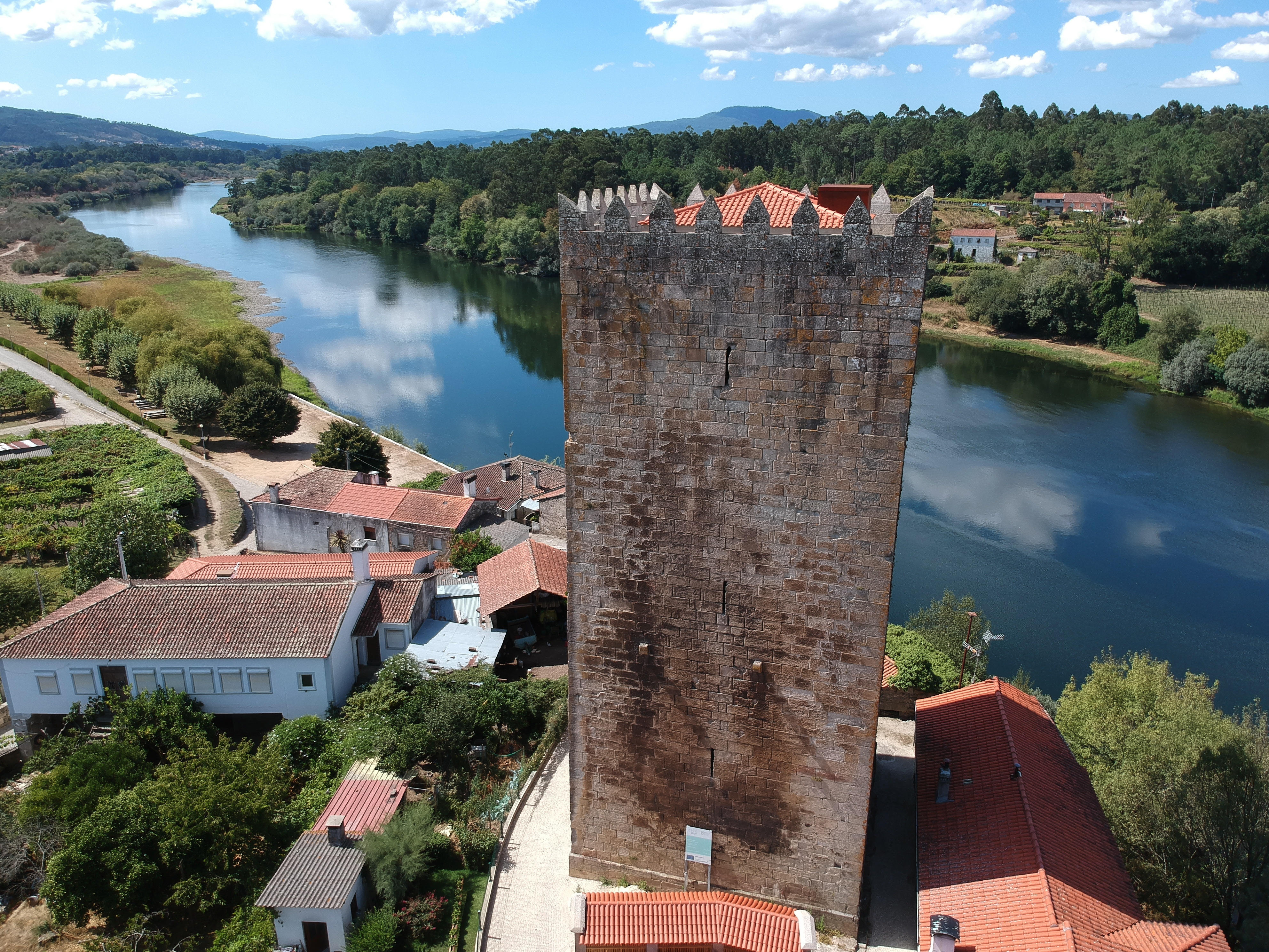 Torre de Lapela, Lapela, Monção, Portugal.